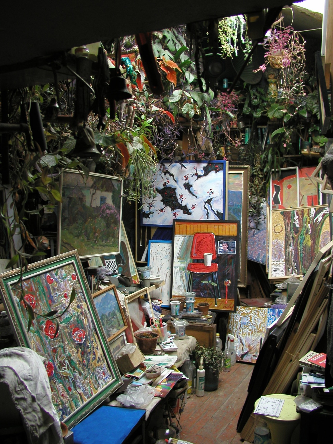 Ilku Marion's studio in Lviv (2002)